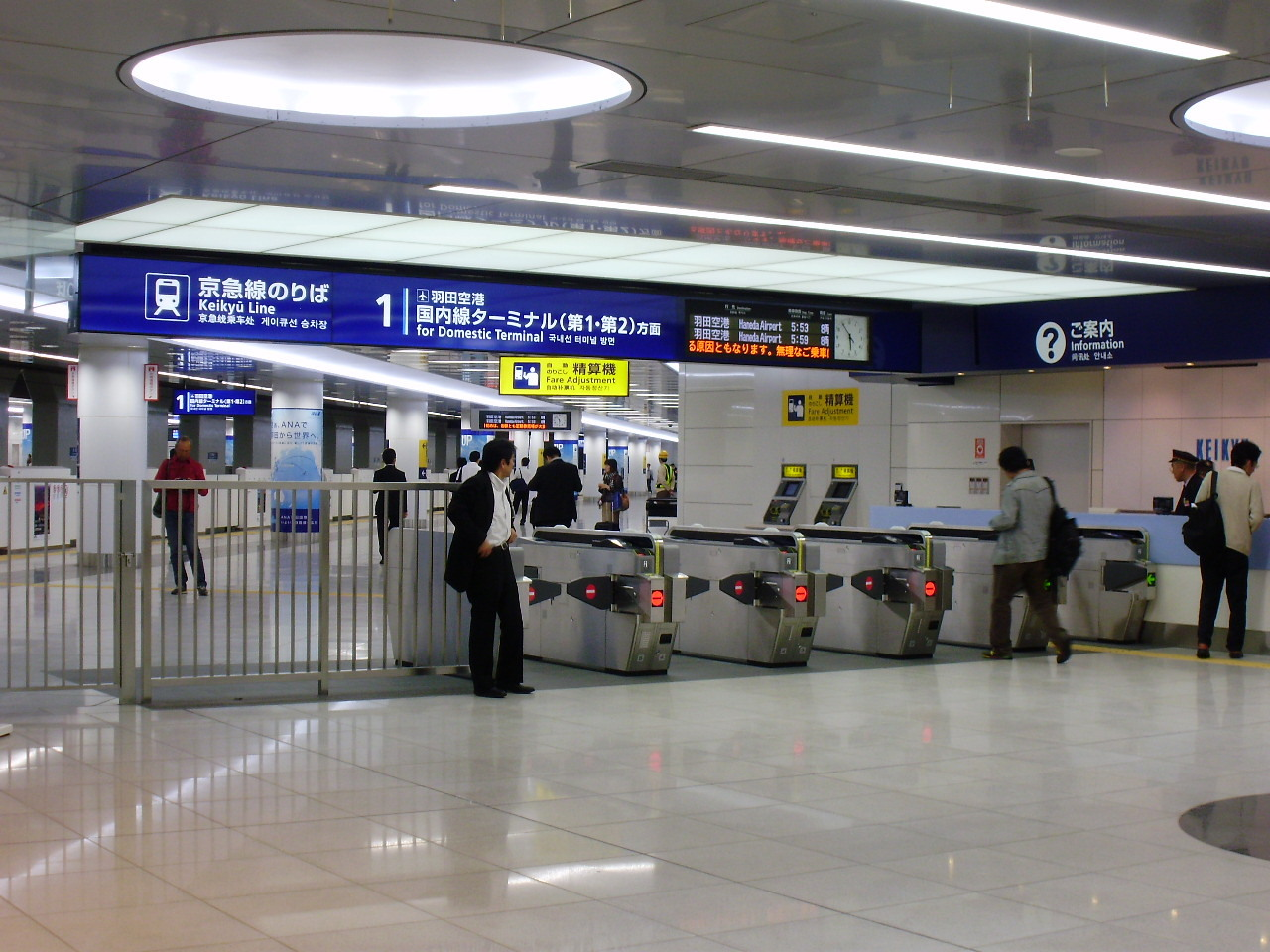 Ticket gates of Keikyu Haneda Airport International Terminal station platform 1